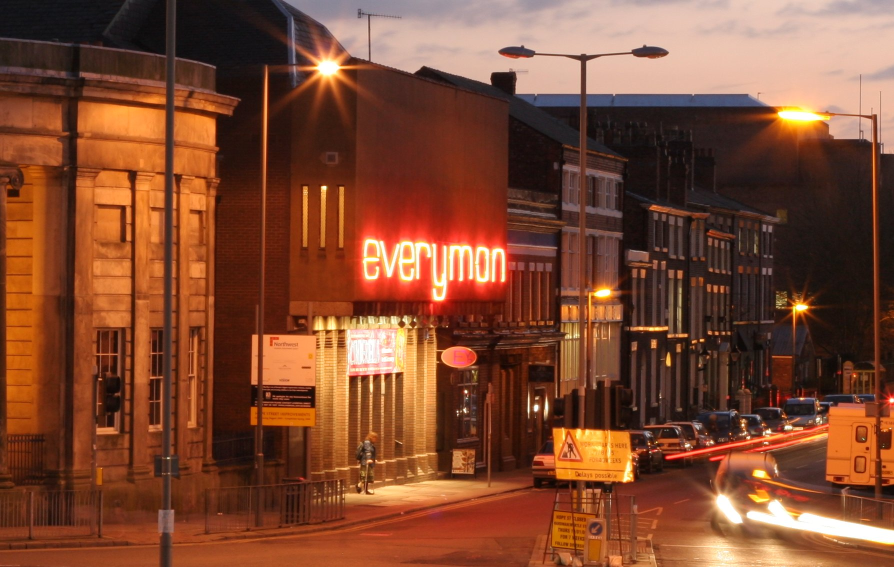 Cropped version of Original Photo by User:Chowells